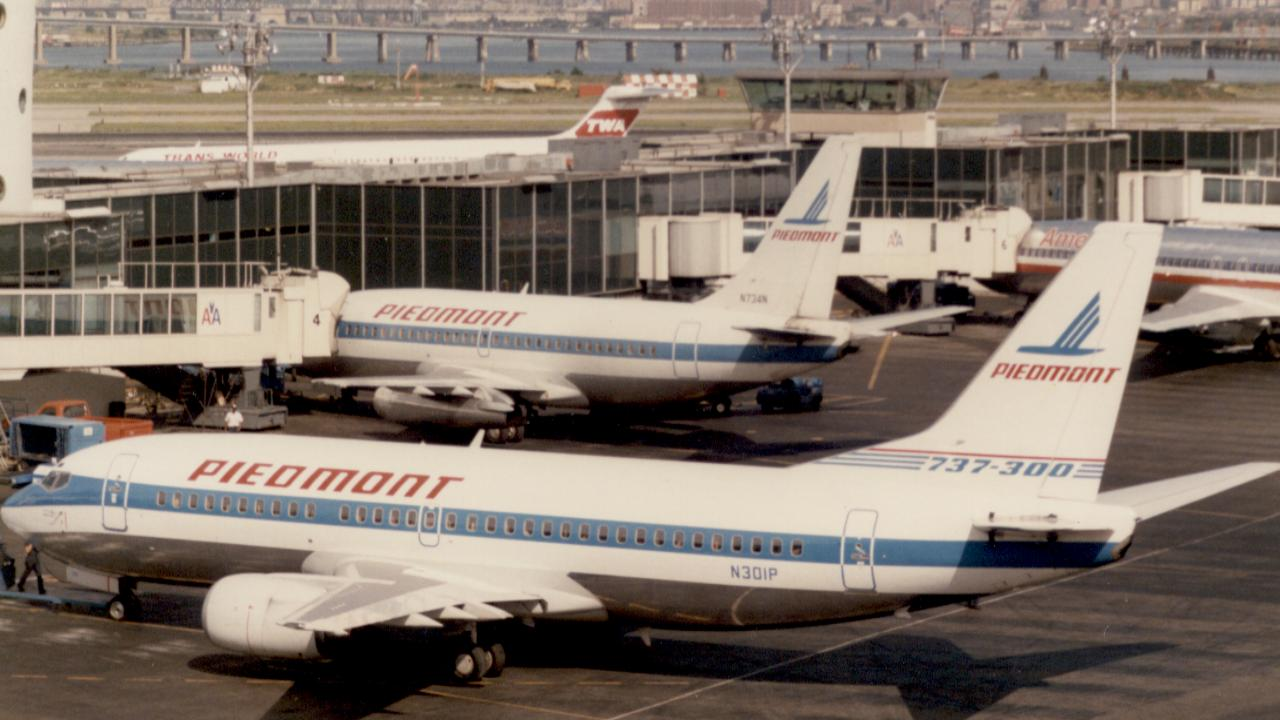 Boeing 737-301 N301P of Piedmont Airlines at La Guardia Airport, New York on 17 August 1985. A Piedmont Boeing 737-201 can also be seen.